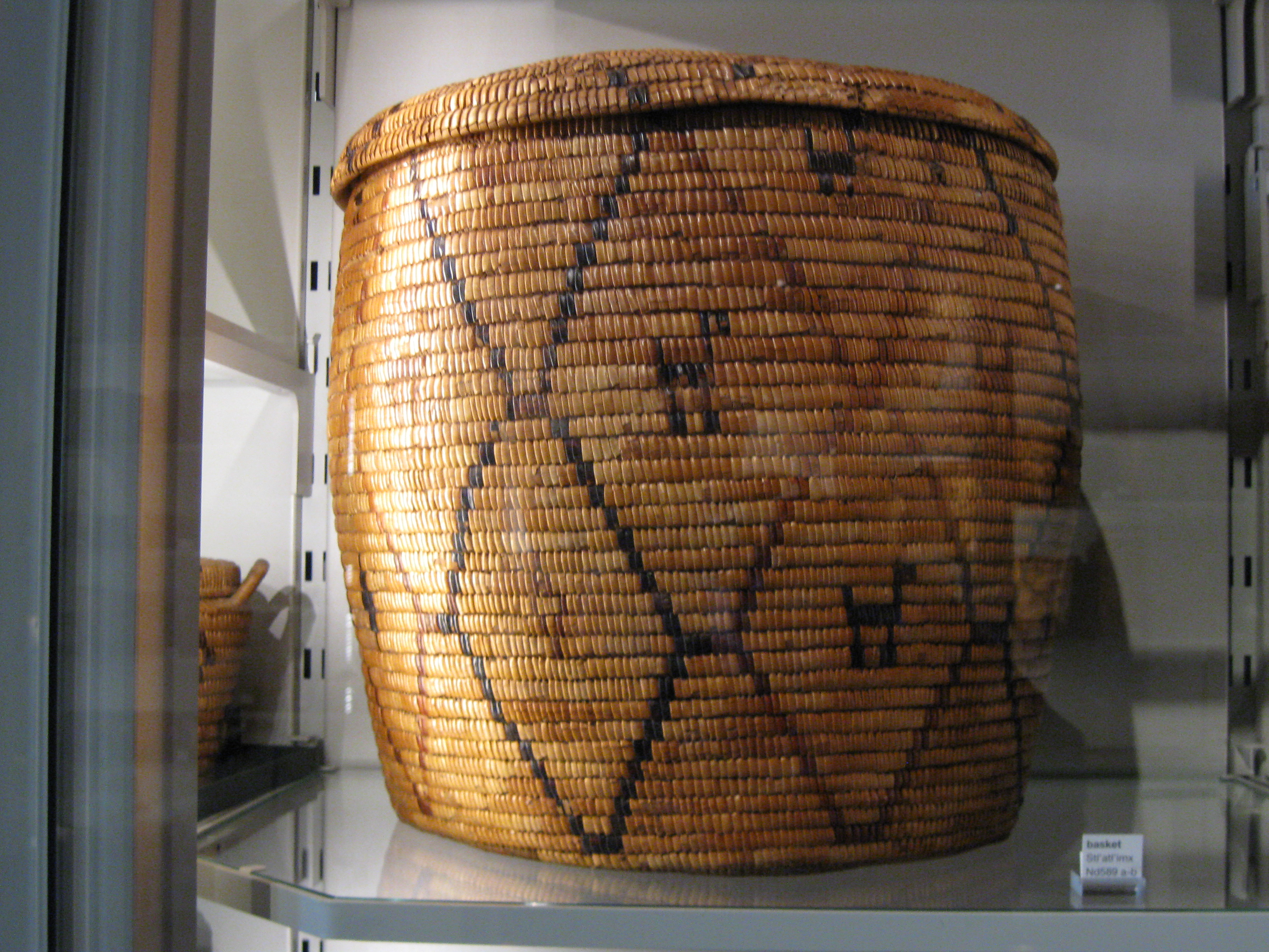 This is a traditional native Indian Stl'atl'imx basket. It is today located within the collection of UBC's Museum of Anthropology in Vancouver, Canada.